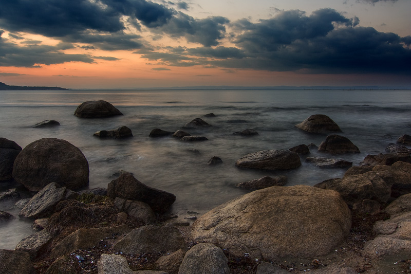 The Bulgarian Black sea coast at sunset